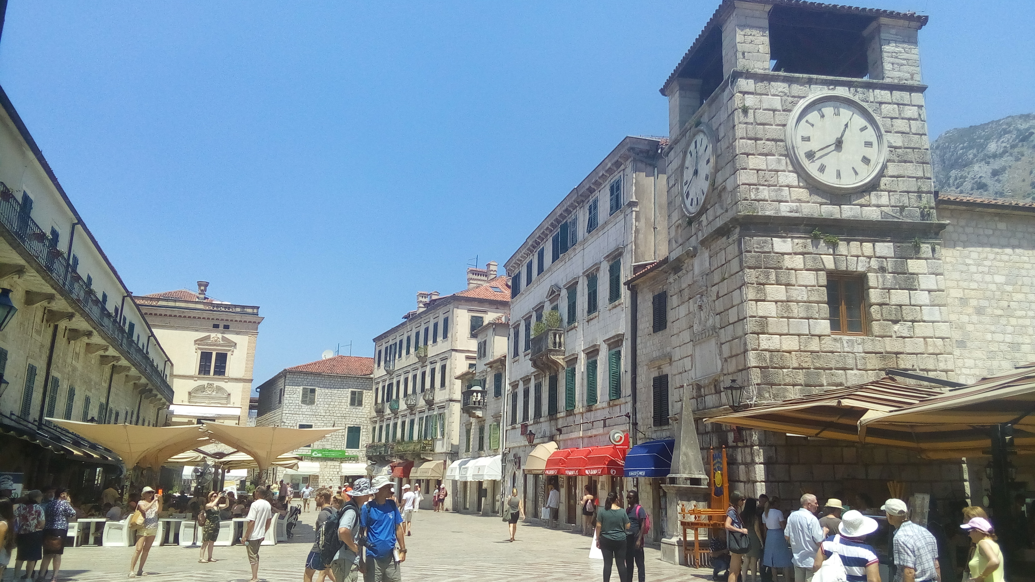 Kotor old city